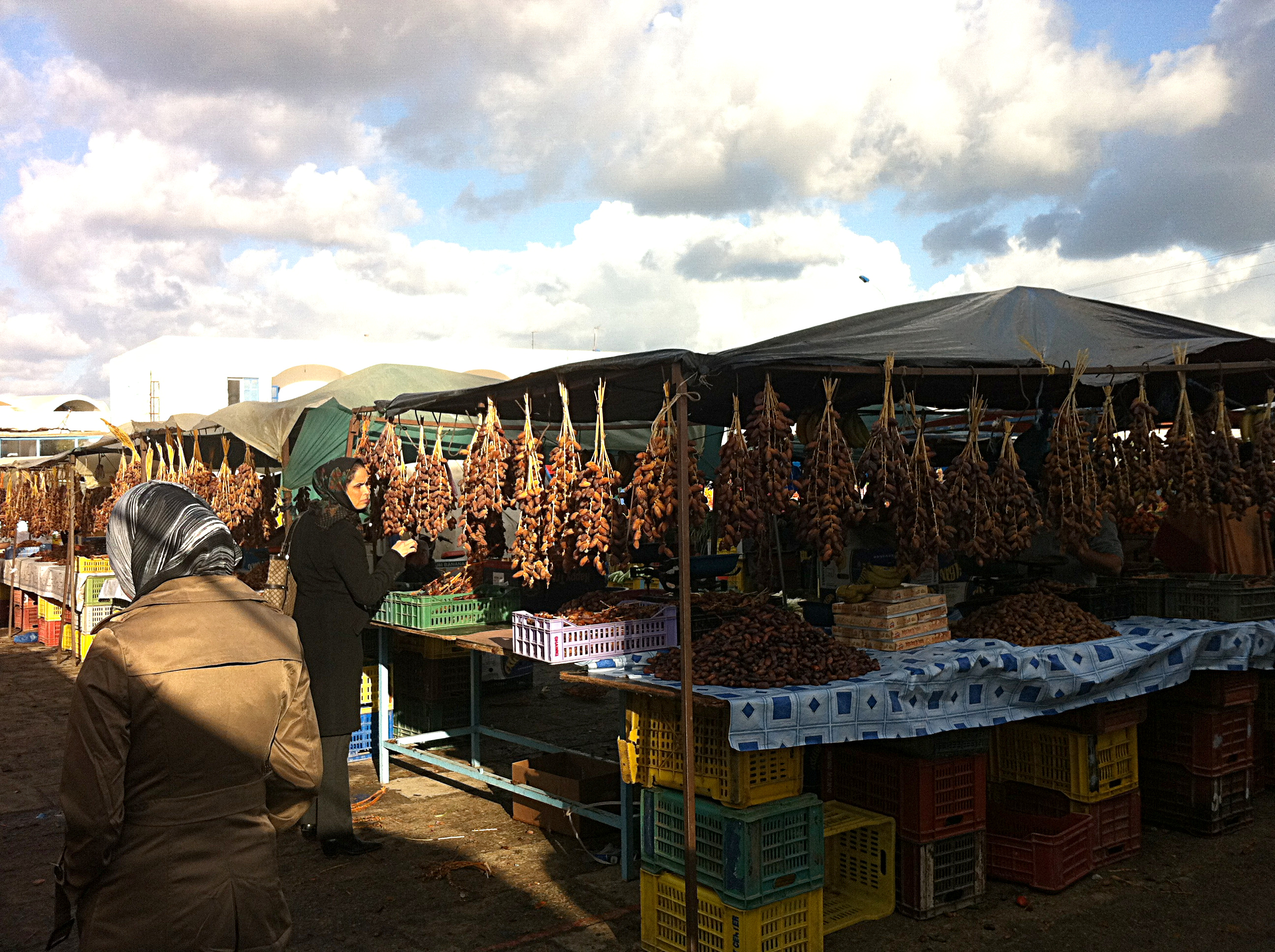 This Photo has been taken with a iPhone 4.